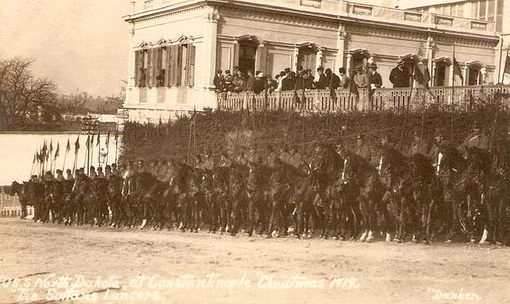 Sultan's Lancers